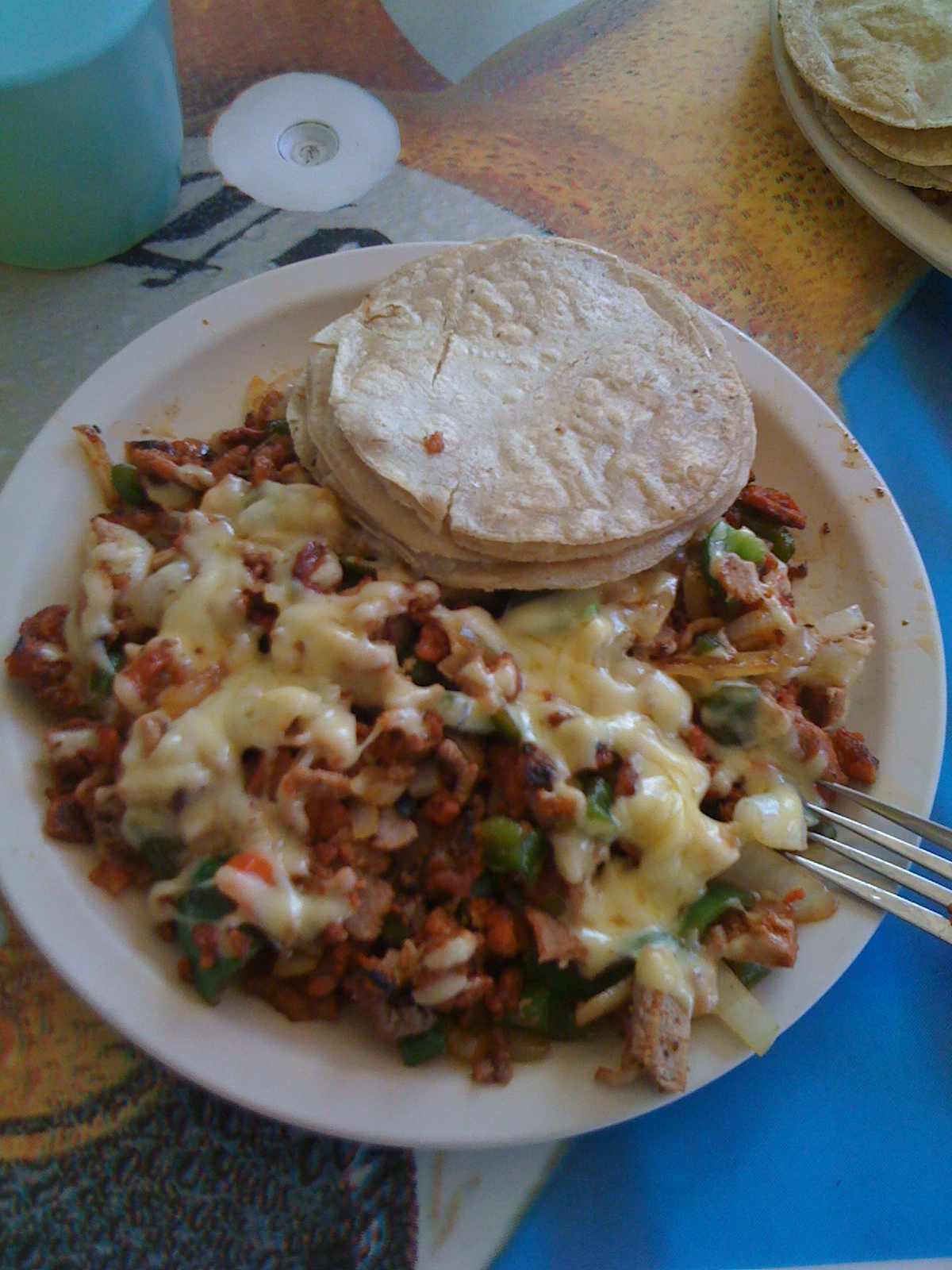 A plate of "alambre", a mexican cuisine dish consisting of meat, cheese, peppers, bacon and other